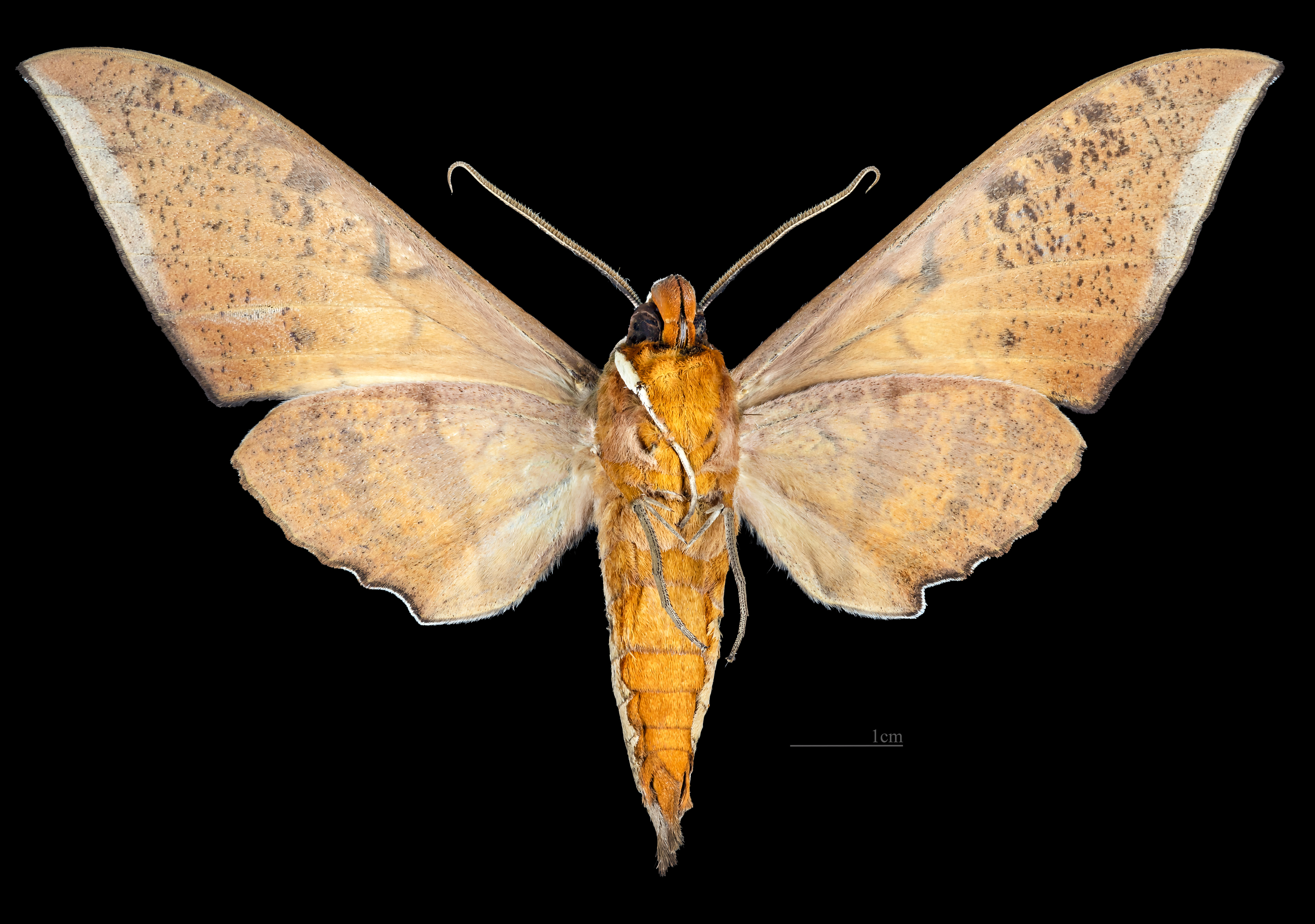 Ambulyx auripennis - △ Ventral side Collection of the Mathematician Laurent Schwartz